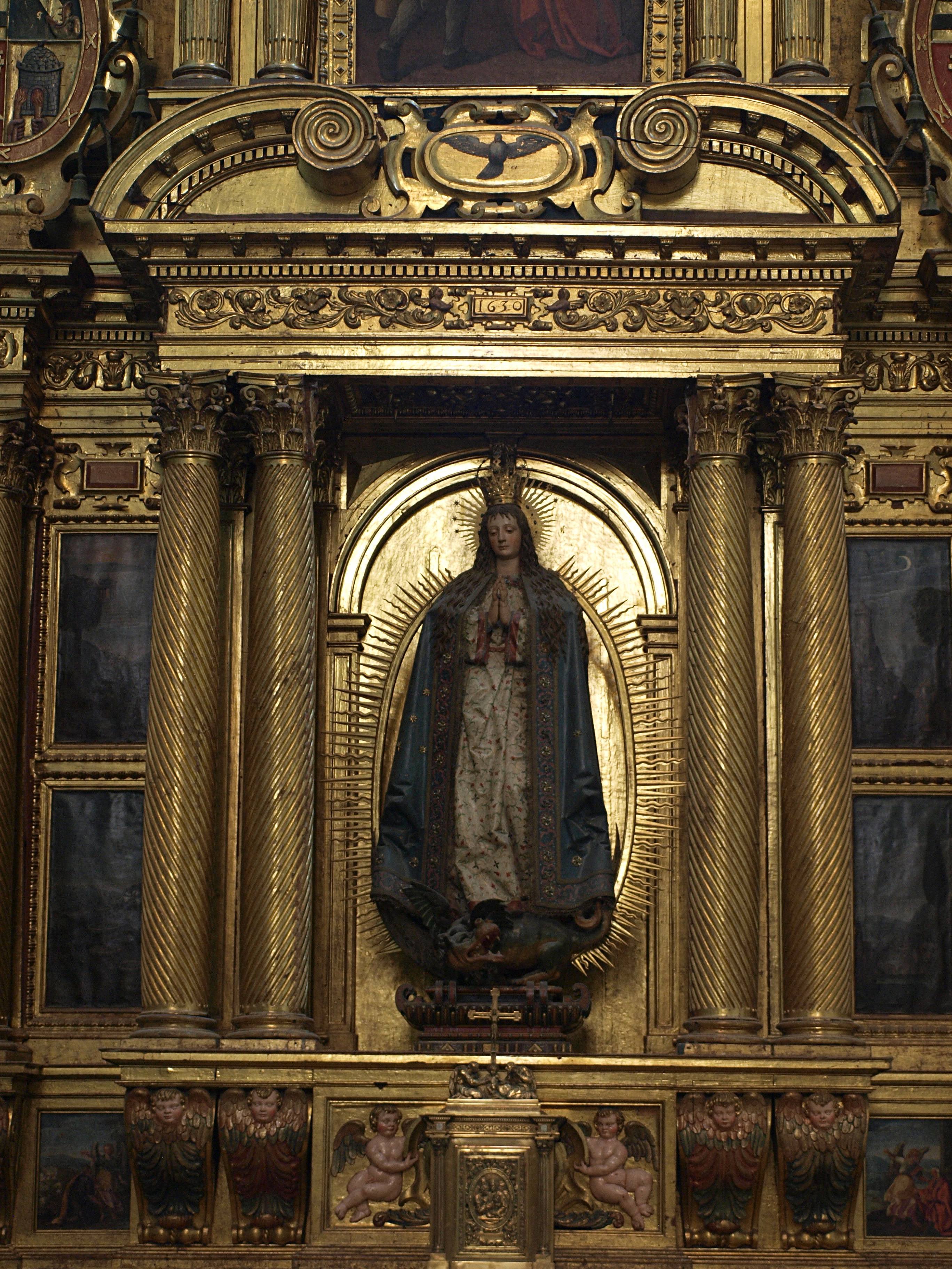 Astorga Cathedral, Astorga (Province of León, Spain).